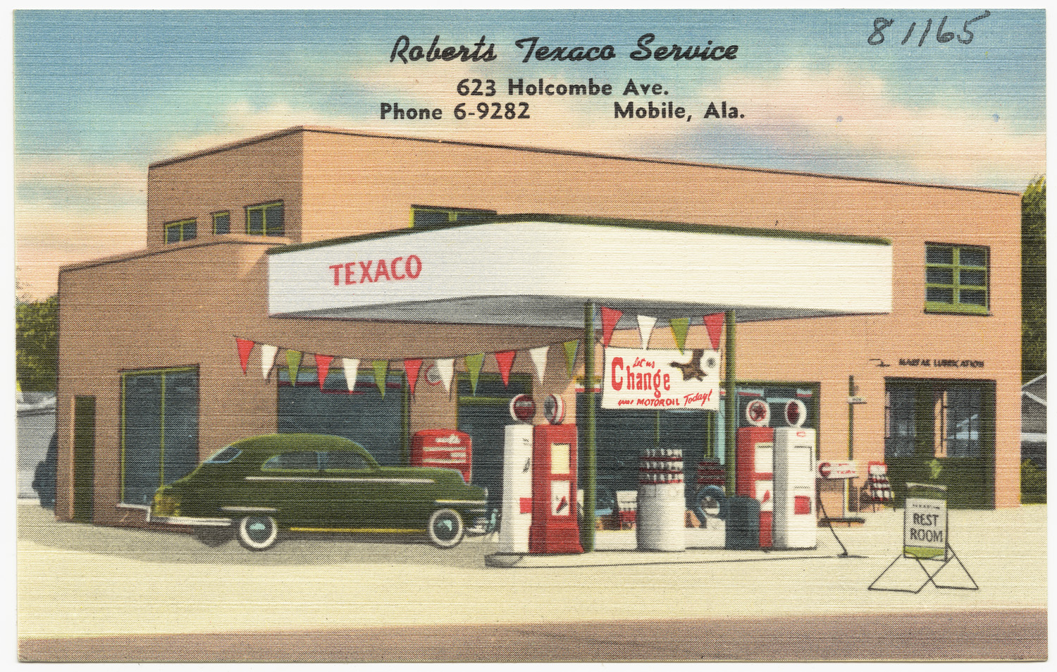 File name: 06_10_012899 Title: Roberts Texaco Service Date issued: 1930 - 1945 (approximate) Physical description: 1 print (postcard) : linen texture, color ; 3 1/2 x 5 1/2 in. Genre: Postcards Subject: Automobile service stations Notes: Title from item. Collection: The Tichnor Brothers Collection Location: Boston Public Library, Print Department Rights: No known restrictions